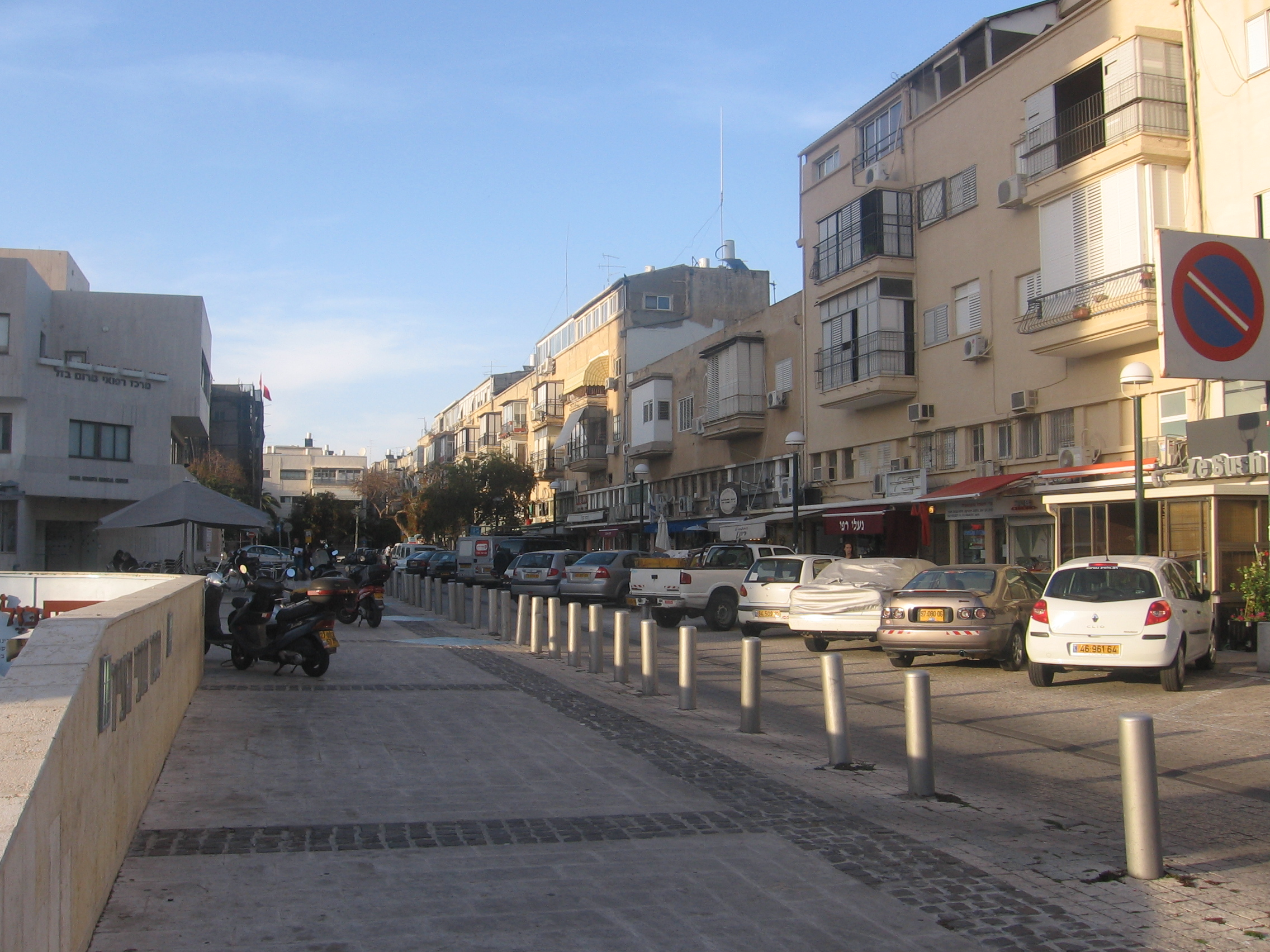 Basel st. Tel Aviv.